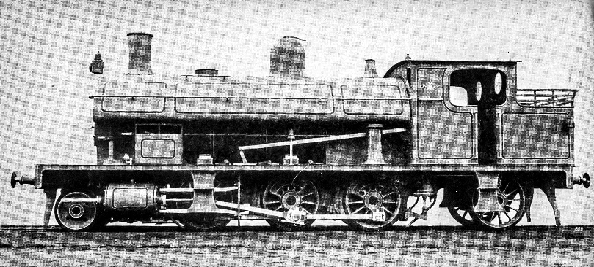 NSWGR Class Z26 Locomotive